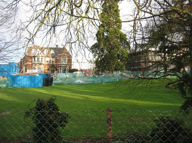 The Perse Prep School The building work to the right is part of a new development comprising of six new classrooms, Art & Technology department and a library. How nice to have the funds to improve facilities. We could do with such additions in my school! Dream on Seb.